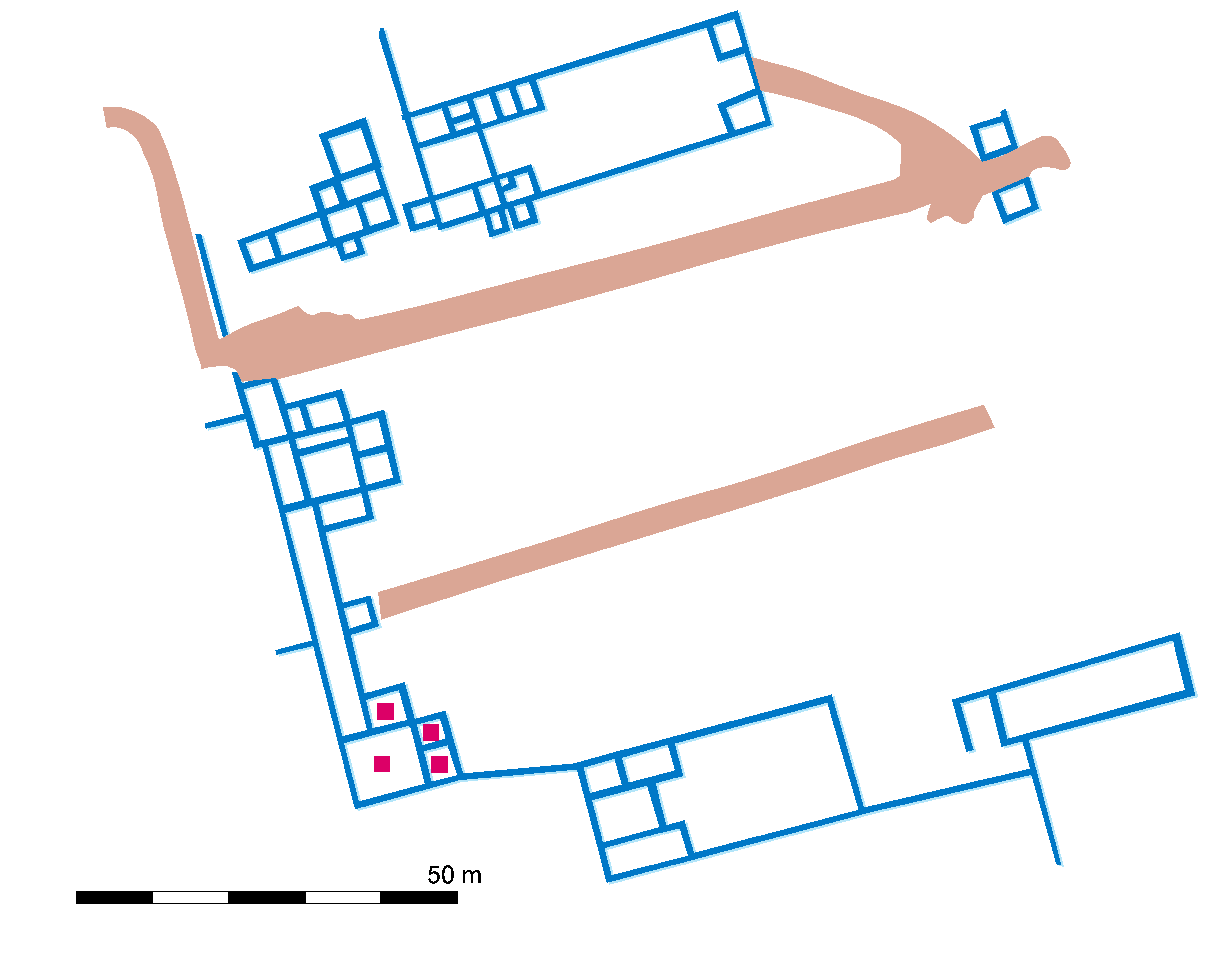 Plan of the Roman villa at Winterton, England; around AD 250; rooms with mosaics are marked red